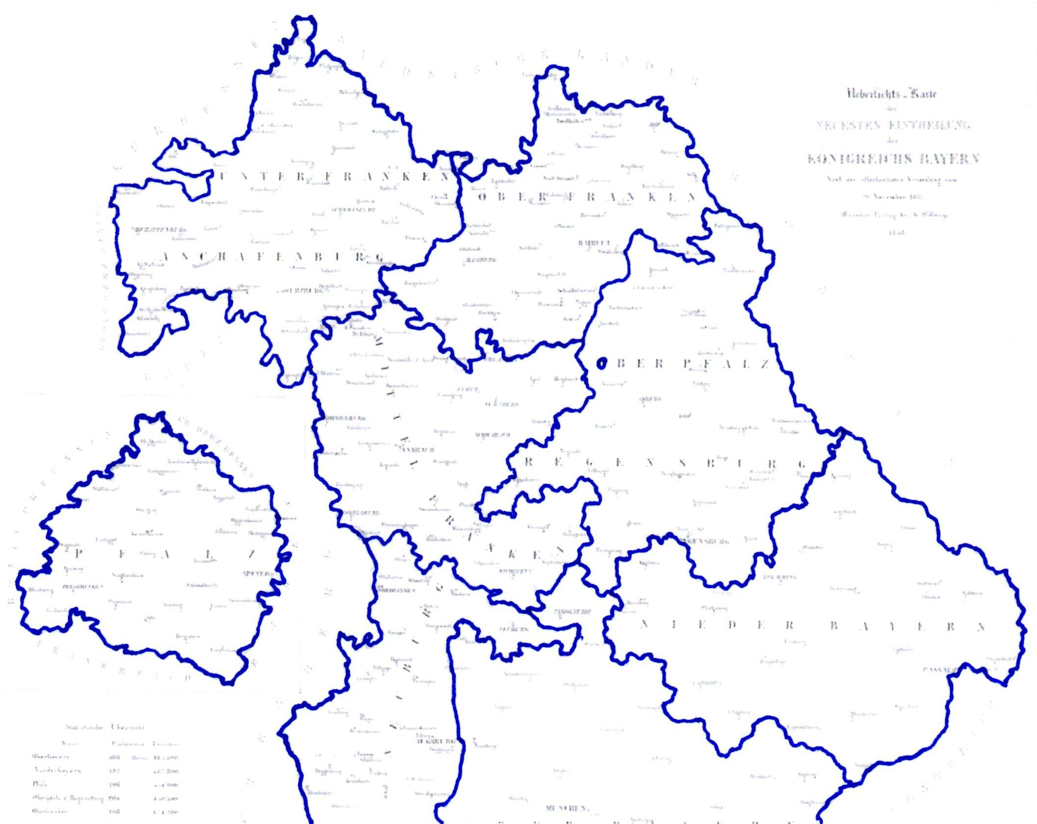 Bavarian Circles in 1838